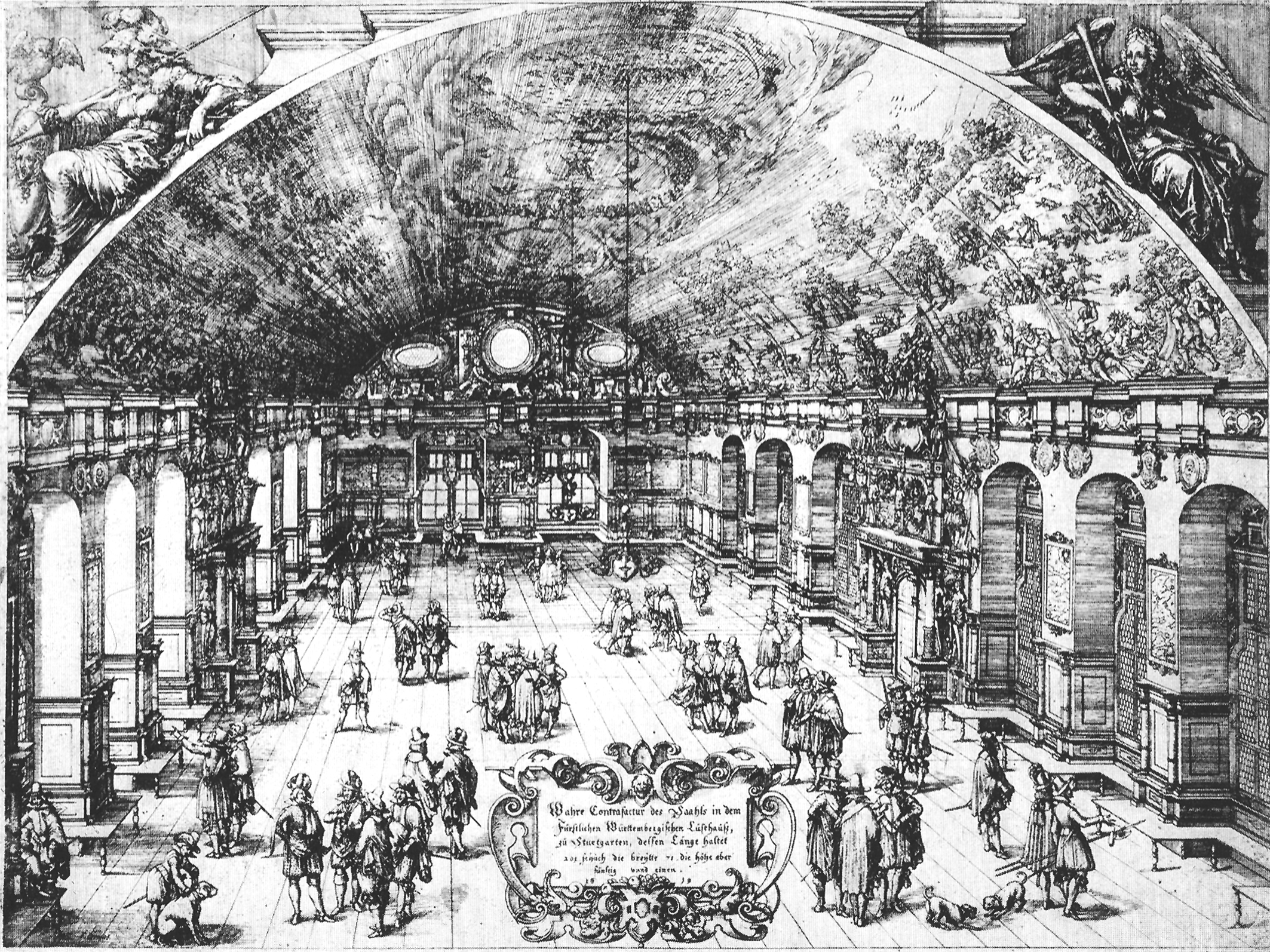 Interior of of the Neues Lusthaus (Ducal pleasure house) in Stuttgart, built 1584 by Georg Beer (etching)